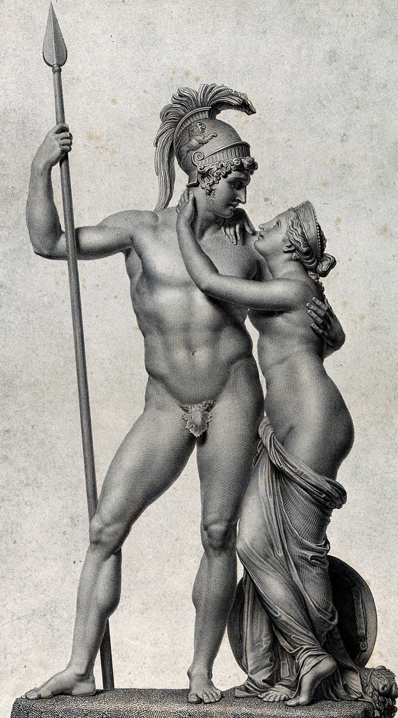 Mars [Ares] and Venus [Aphrodite]. Engraving by D. Marchetti after G. Tognoli after A. Canova. Iconographic Collections